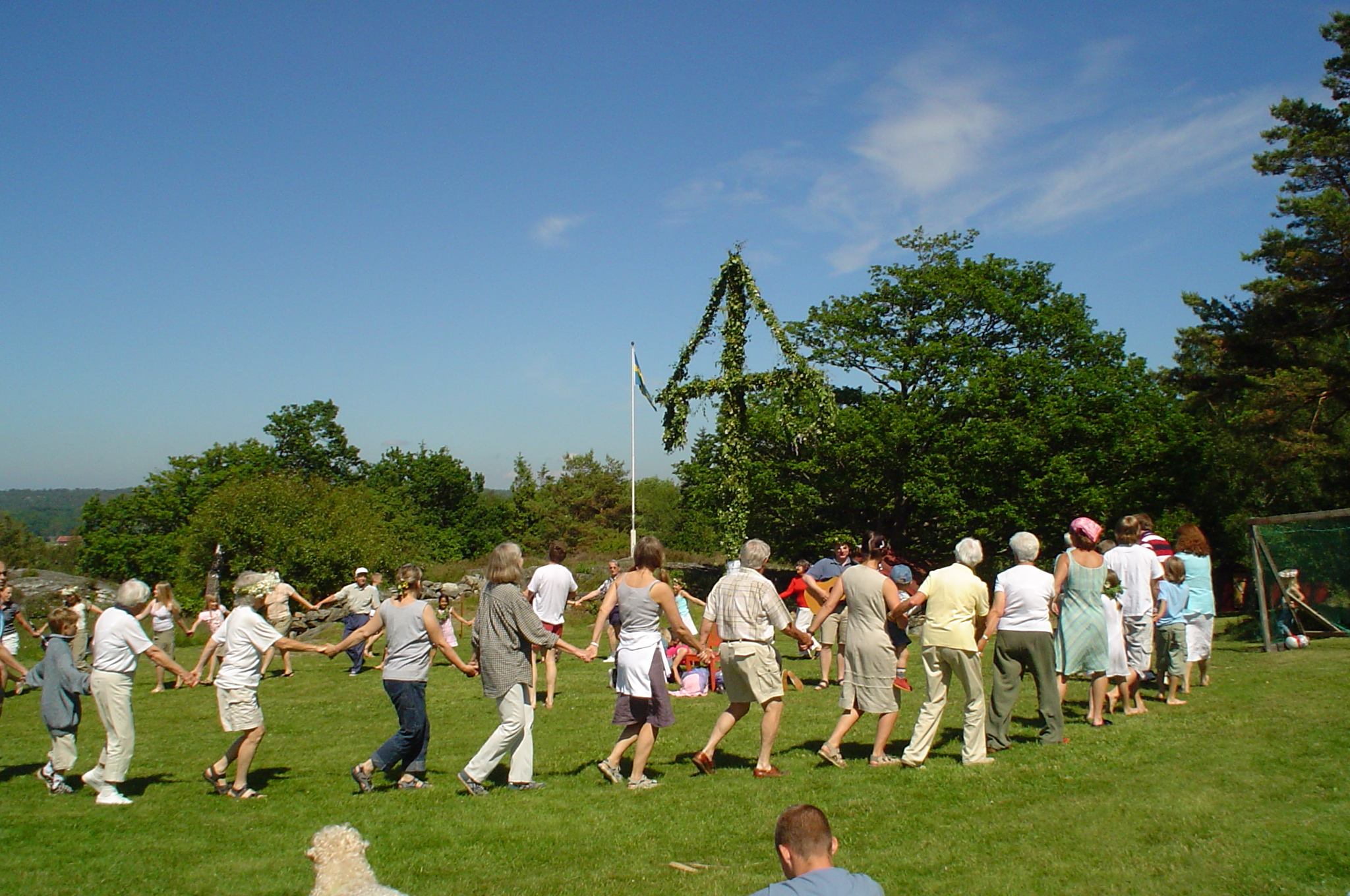 Midsummer celebration at Årsnäs, by the coast from Kode, Solberga församling.